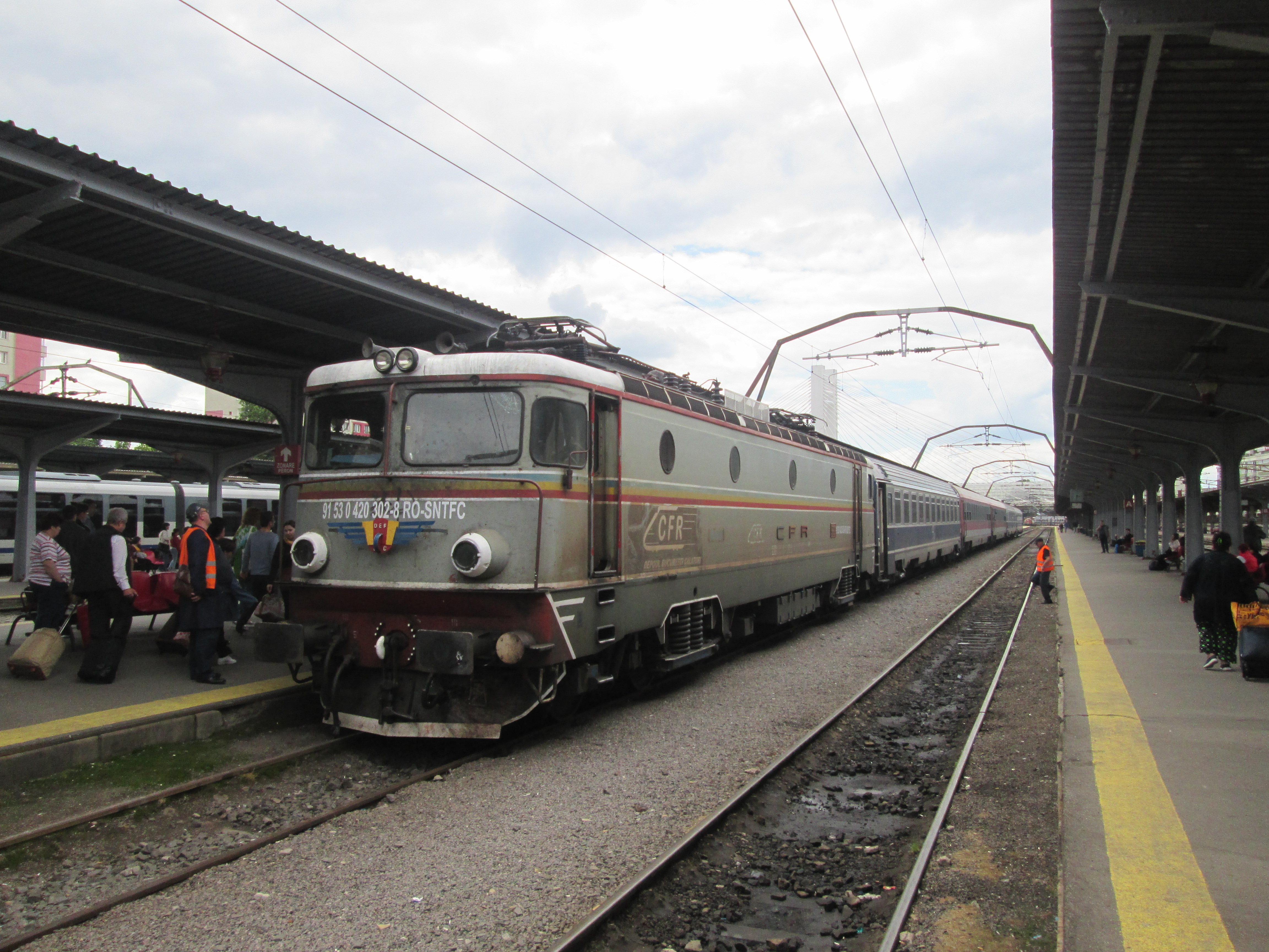 Electric Locomotive EA2 302, the speed record holder of a Romanian train is seen at Gara de Nord